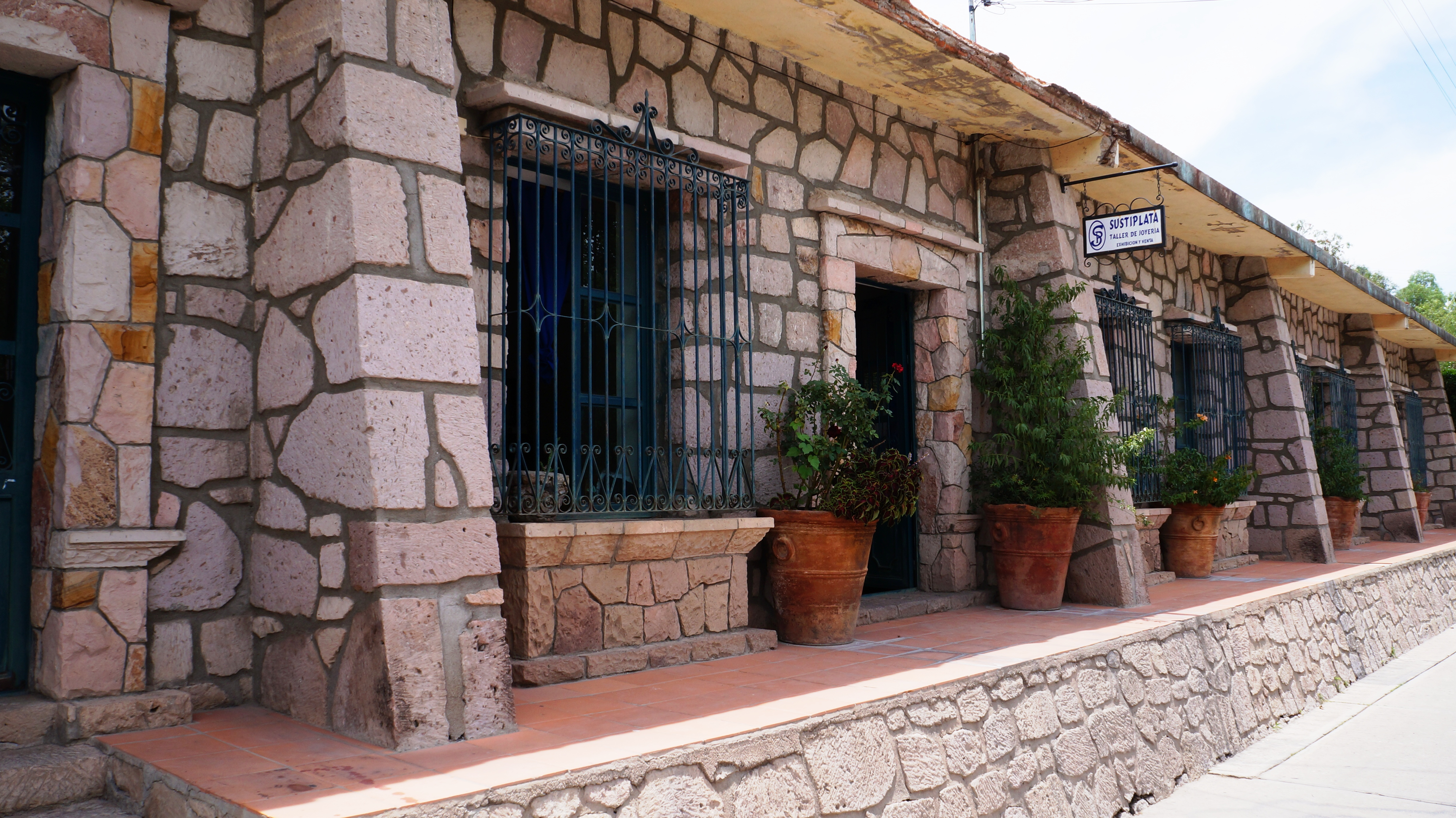 Museum and silver workshop